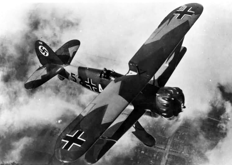 Photograph of a German Henschel Hs 123A-1 ground attack plane ("52+A13", c/n 968) of 7./StG 165 Immelmann (7th Squadron, 165th Dive-bomber Wing), at Fürstenfeldbruck, Bavaria, Germany in 1937.